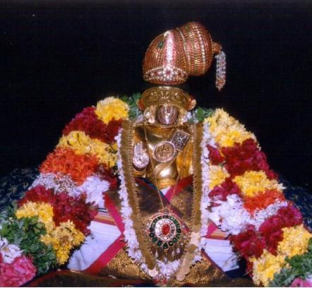 Photo of nammazhwar